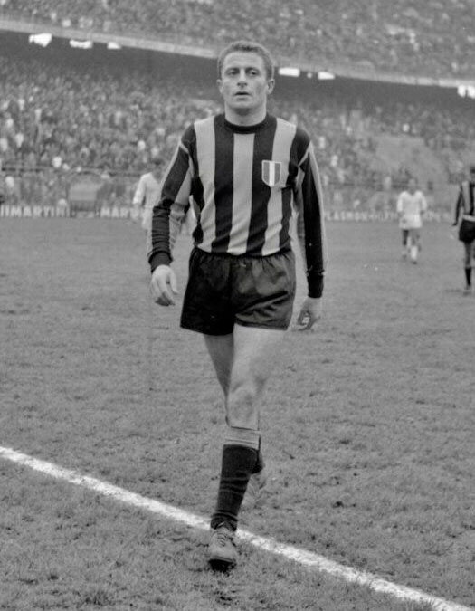 Italian footballer Aurelio Milani with Inter Milan in the 1963–64 season, inside the San Siro Stadium in Milan.